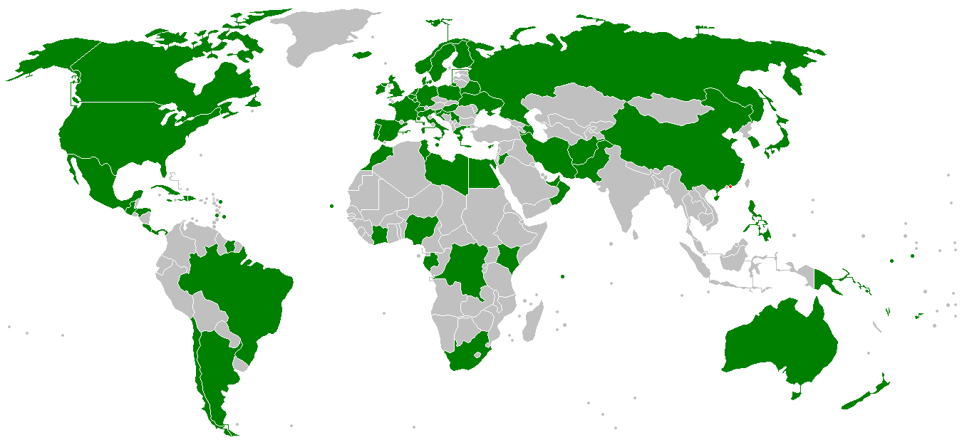 Parties to the London Convention (in green; associates in red)